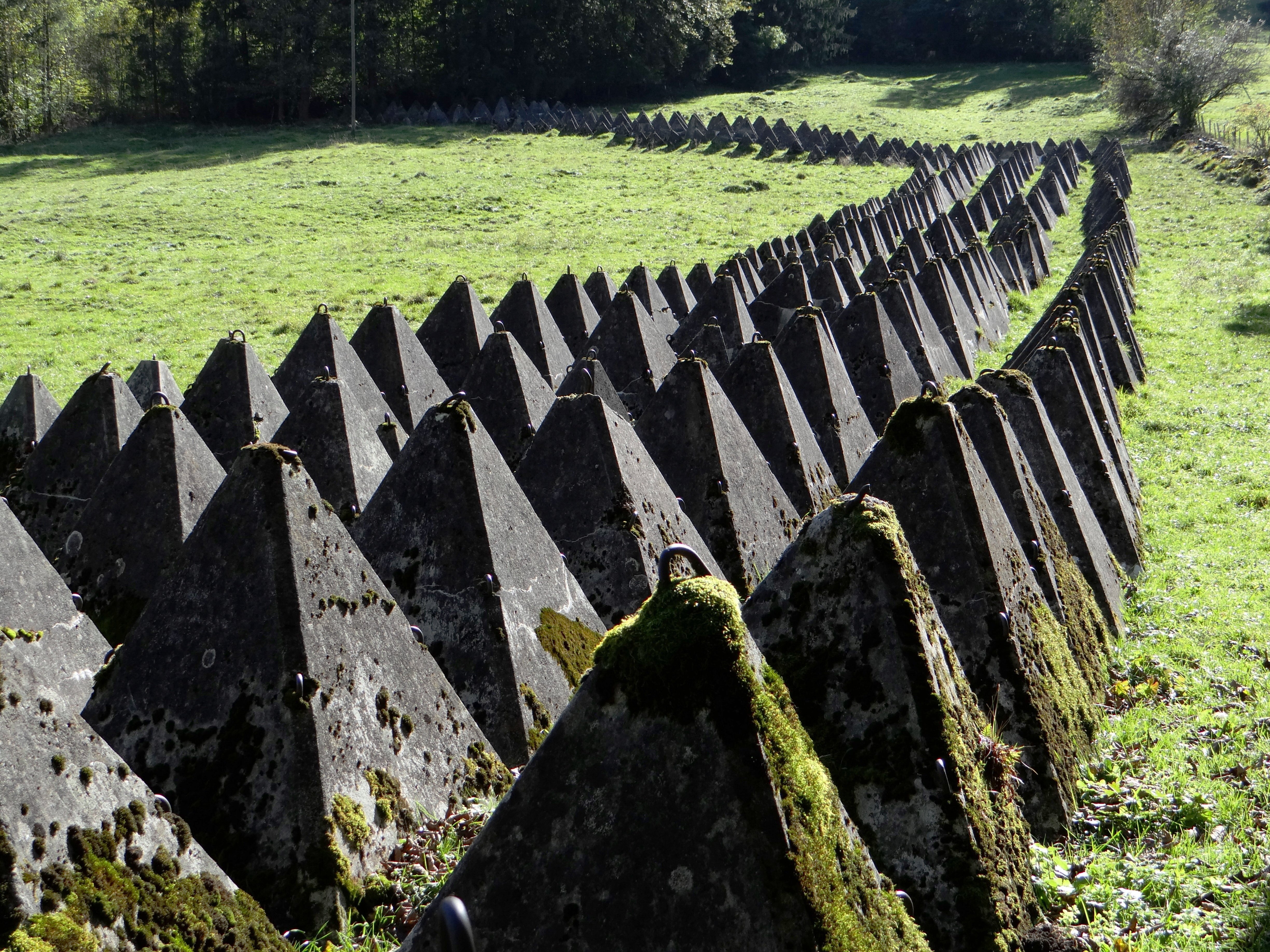 Anti-tank obstacles in Wimmis/Switzerland